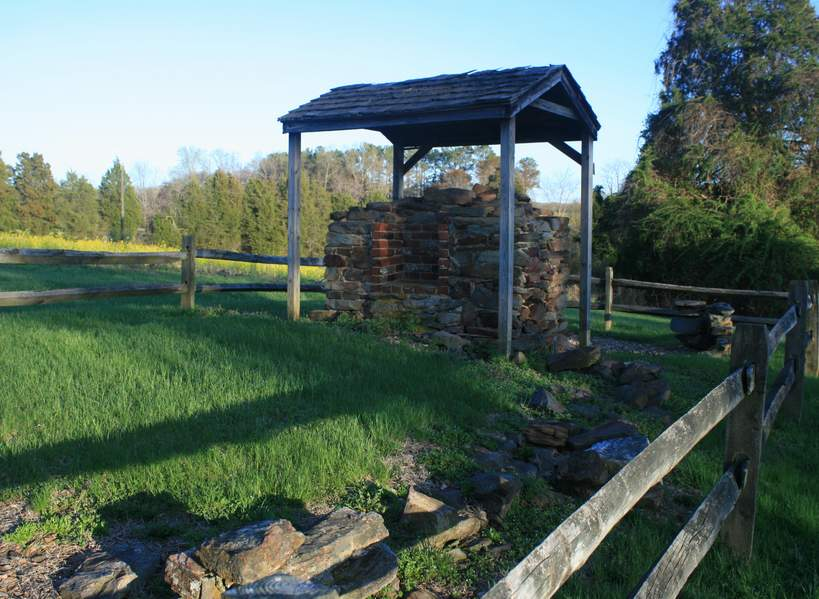 Remains of Wilderness Tavern at Chancellorsville buttlefield